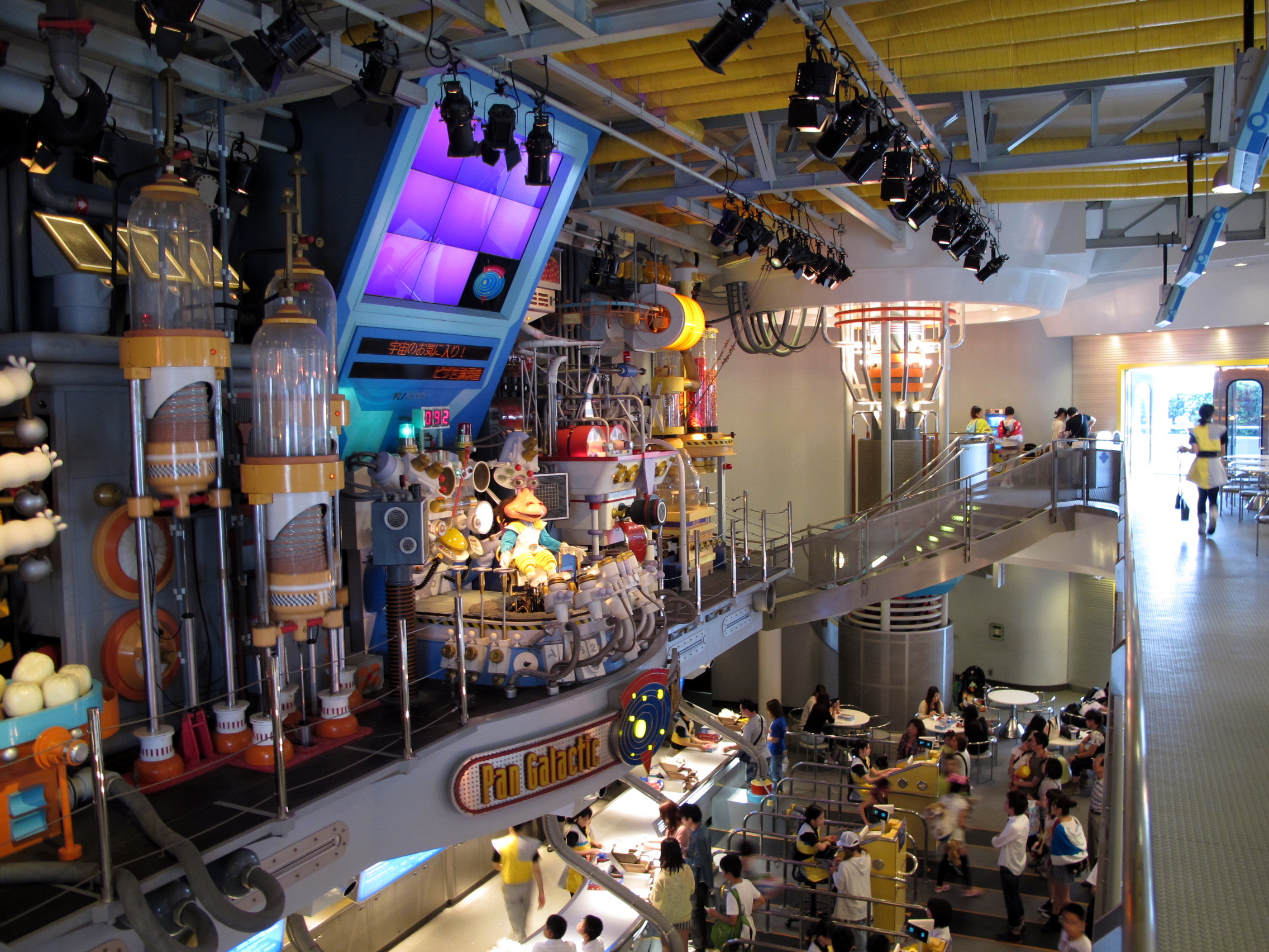 Pan Galactic Pizza Port, Tokyo Disneyland Tomorrowland